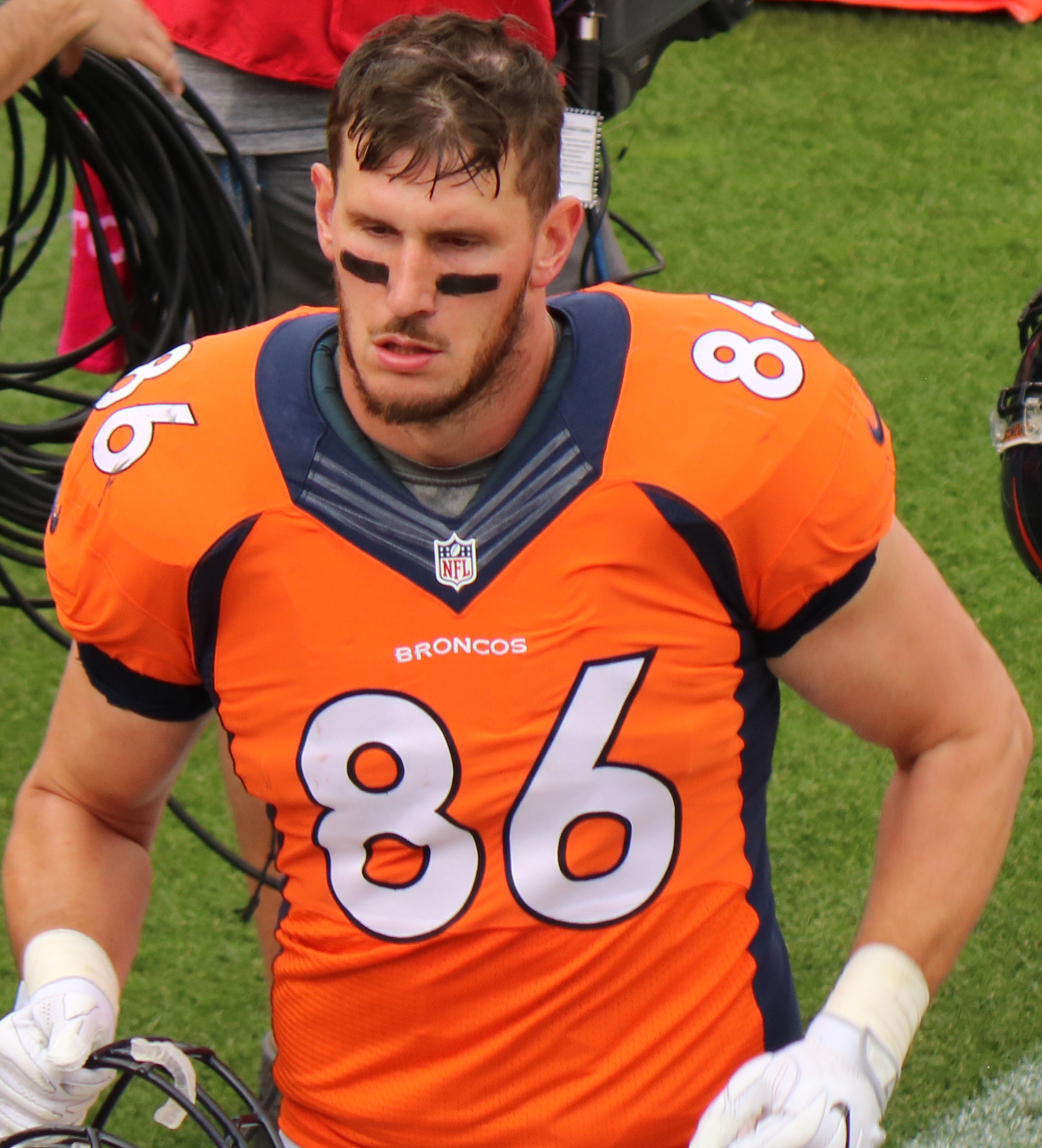 John Phillips, a player on the National Football League.